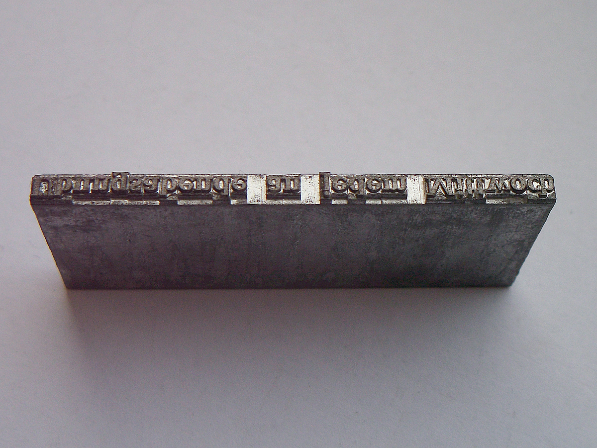 Linotype type slug »Übungsabende an jedem Mittwoch« (Exercise evenings every Wednesday)